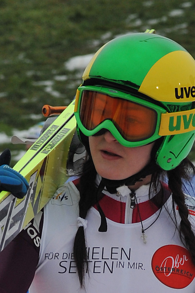 FIS Ski Jumping World Cup Ladies 14th World Cup Competition Normal Hill Individual Hinzenbach (AUT) Sun 2 Feb 2014: Alexandra Kustova